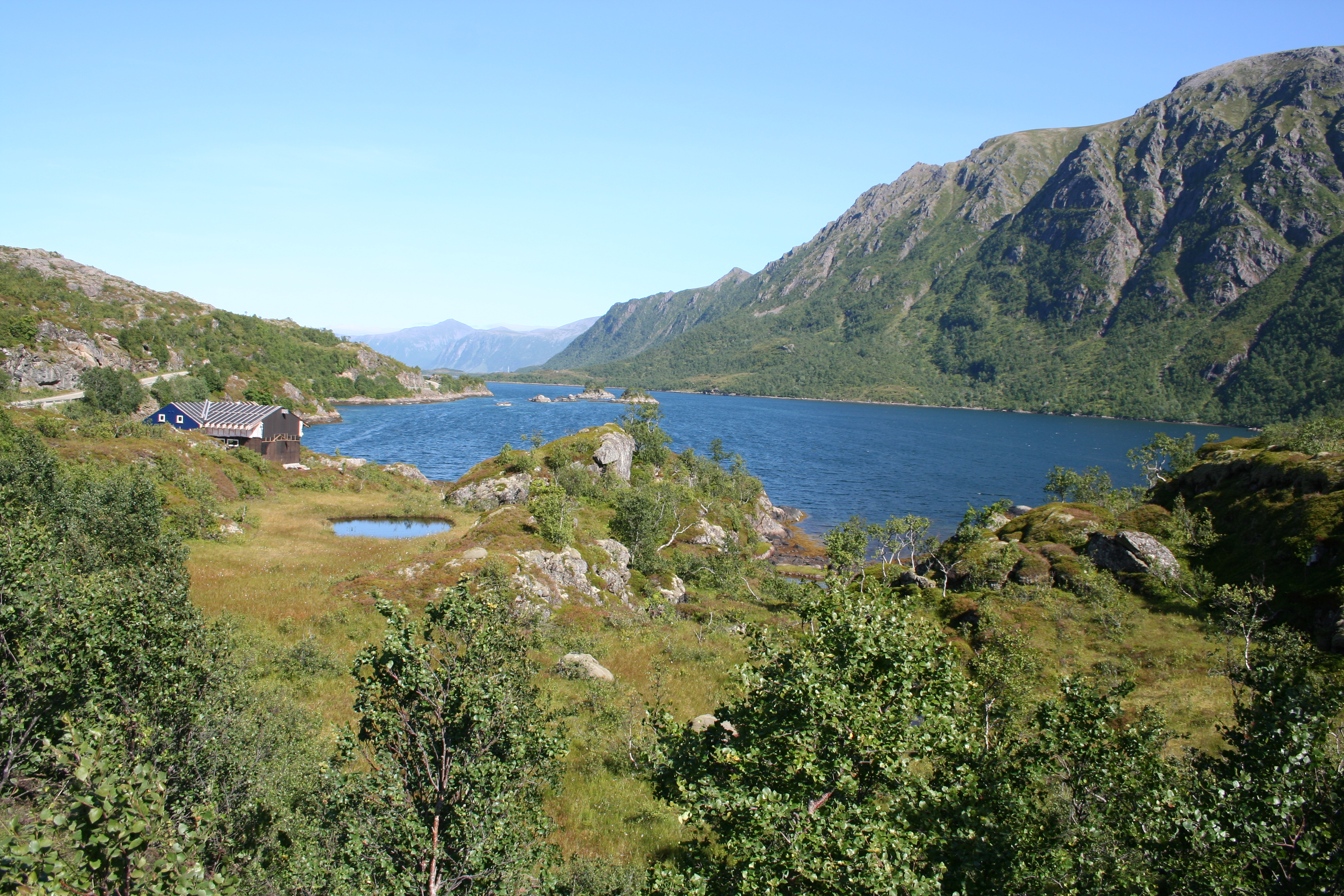 Lifjorden, Øksnes municipality in Norway. This picture was taken by me on 4 August 2006.